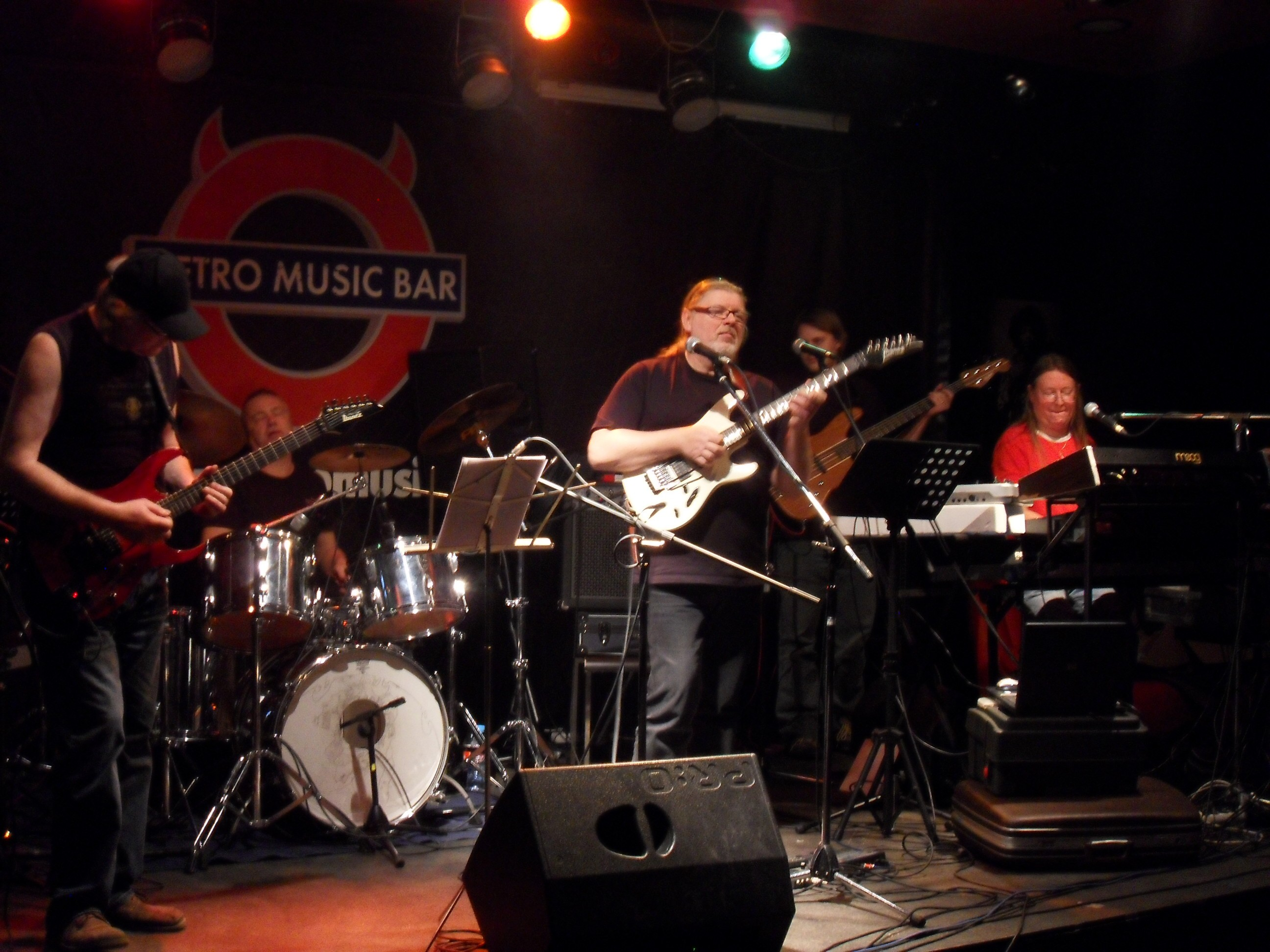 Band Futurum (from left: Miloš Morávek, Jan Seidl, Emil Kopřiva, Jakub Michálek, Roman Dragoun), Brno, Czech Republic